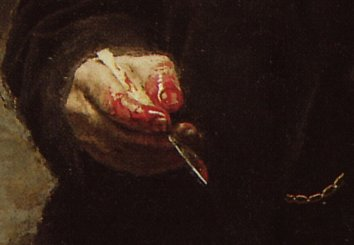 Detail from The Gross Clinic by Thomas Eakins